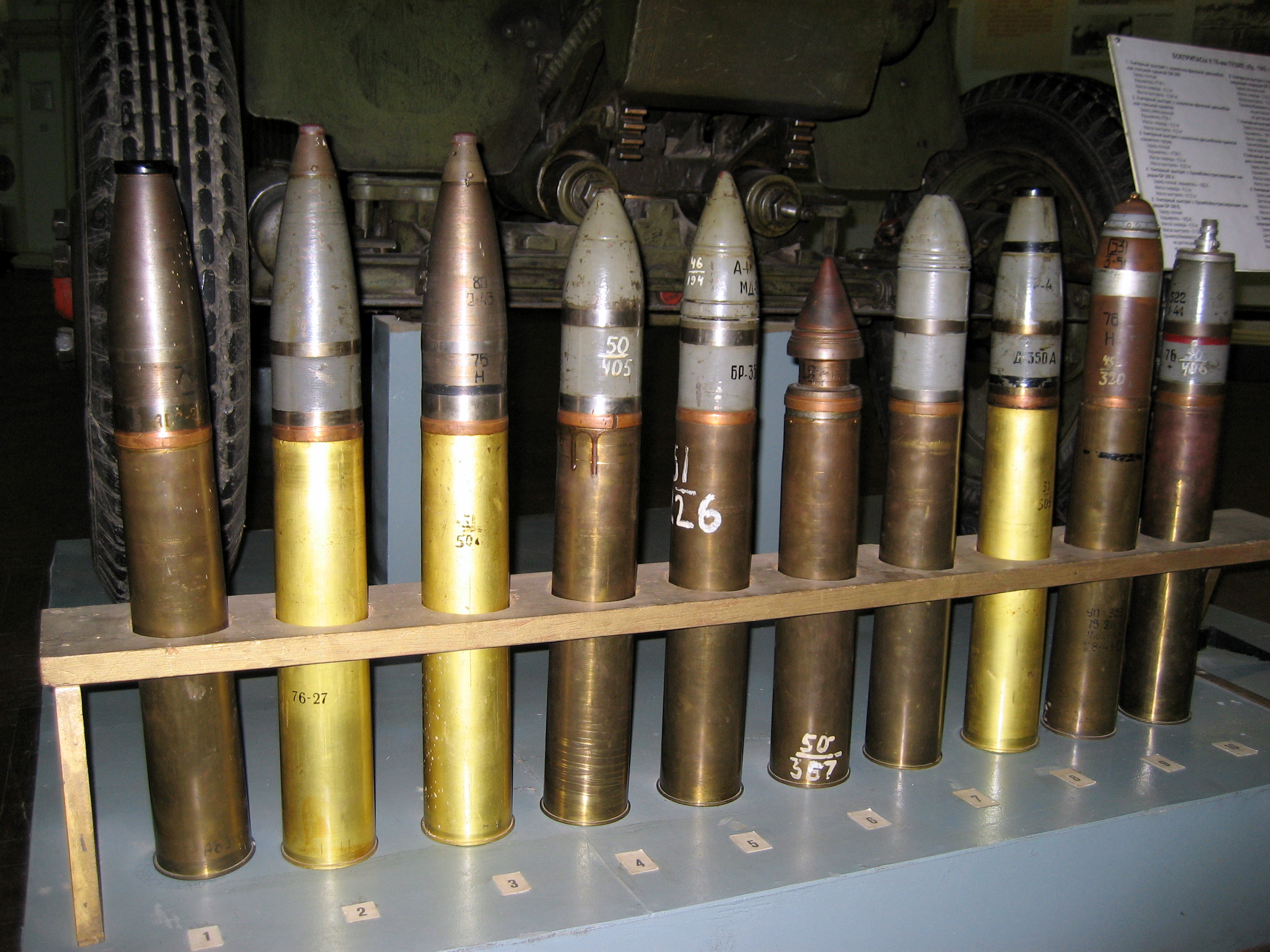 ammunition 76 mm ZiS-3 gun displayed in Saint Petersburg Artillery Museum